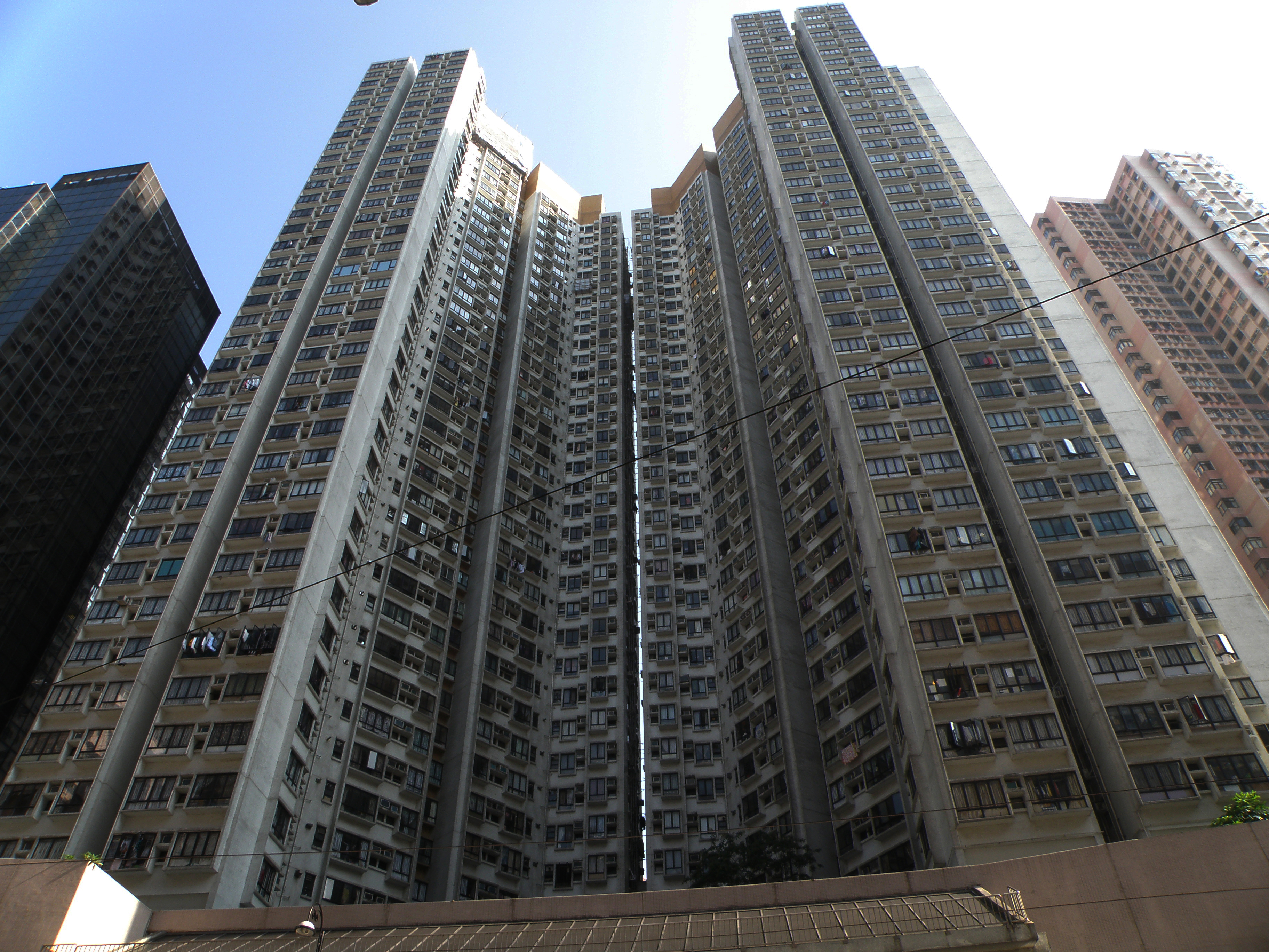 Fortress Metro Tower in Fortress Hill, Hong Kong.